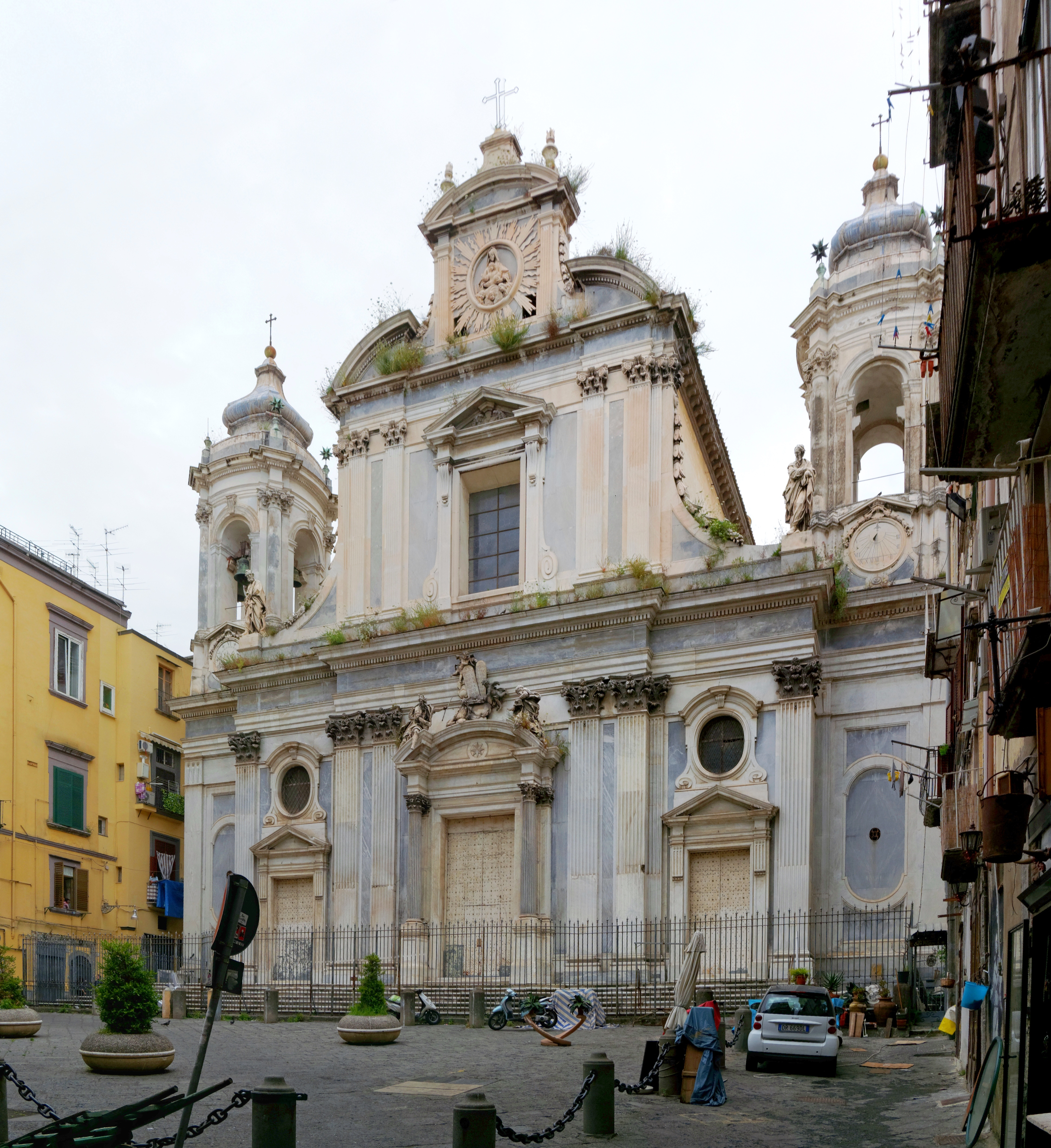 Naples, San Filippo Neri dei Girolamini